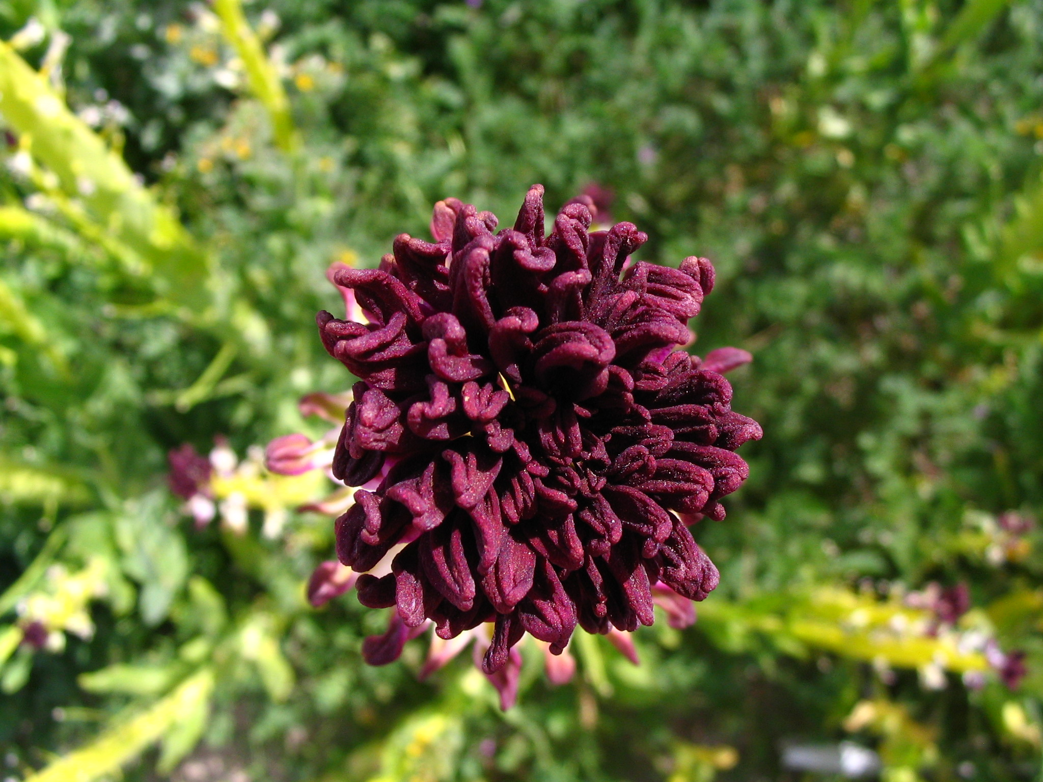 Desert candle (Caulanthus inflatus)